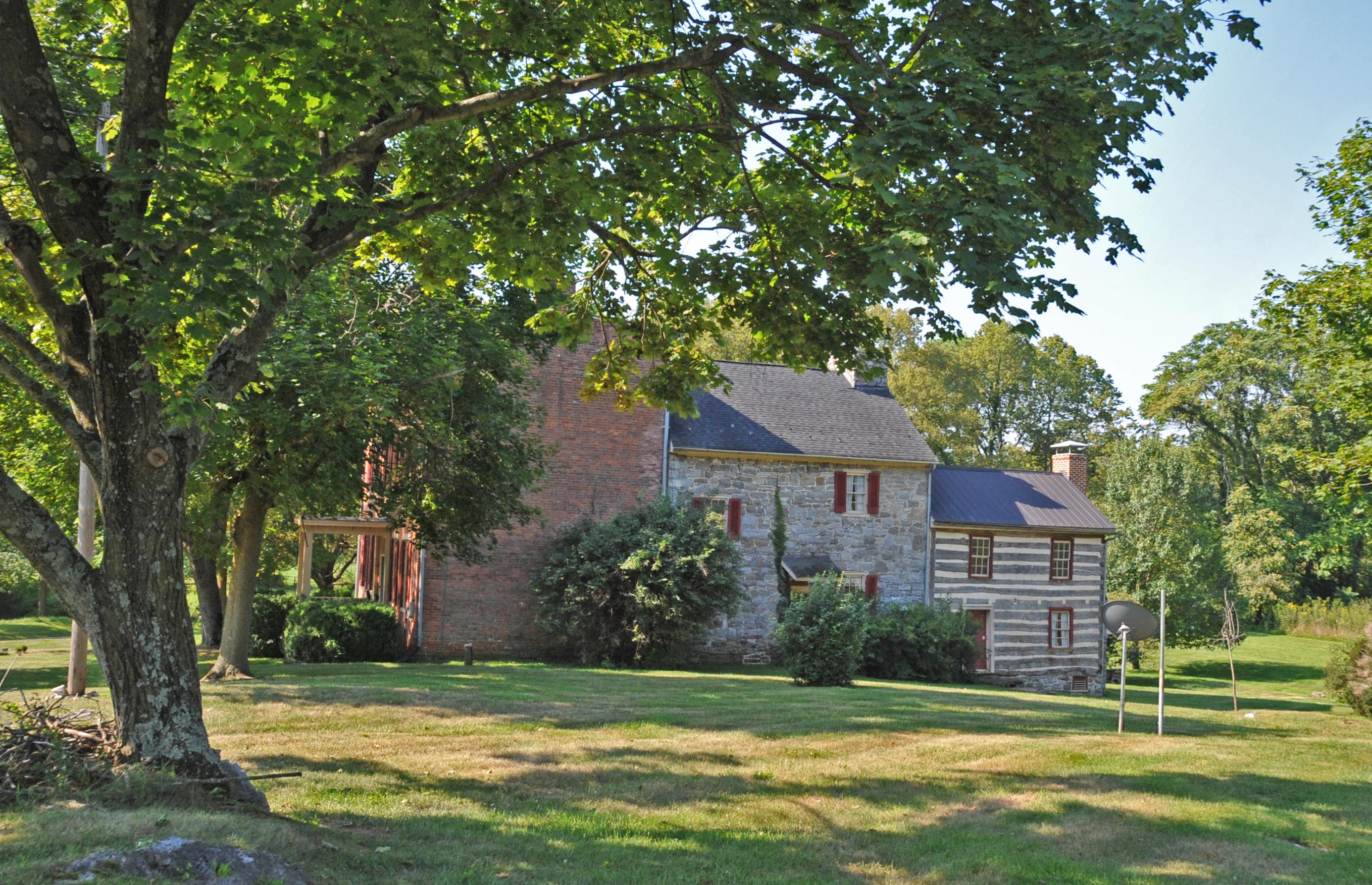 THE HOUSE WAS BUILT IN 3 SECTIONS. THE LOG SECTION WAS BUILT IN 1760, THE MIDDLE STONE SECTION WAS BUILT IN RUBBLE STONE IN 1791, AND THE FRONT BRICK SECTION IN GREEK REVIVAL STYLE WAS BUILT IN 1855